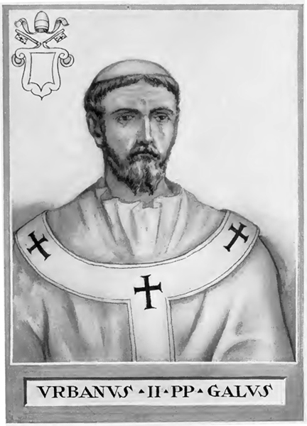 This illustration is from The Lives and Times of the Popes by Chevalier Artaud de Montor, New York: The Catholic Publication Society of America, 1911. It was originally published in 1842.